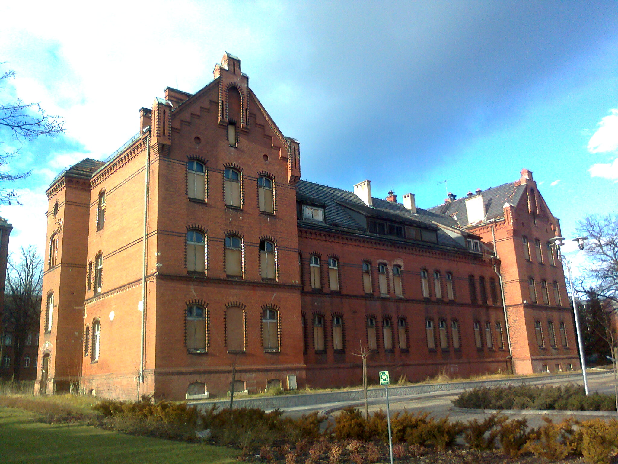 4 Włoska Street in Prudnik